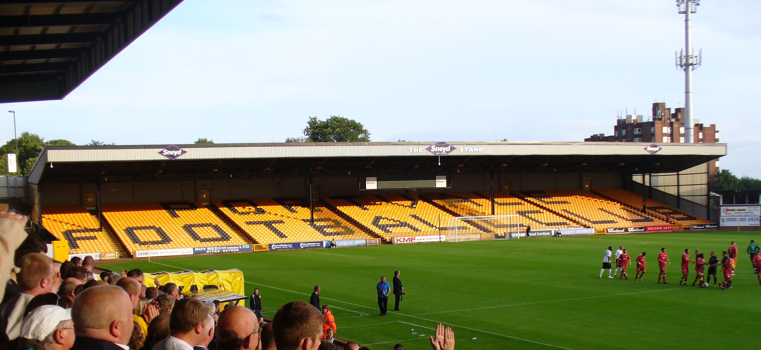 Vale Park, Burslem, near to Burslem, Stoke-on-Trent, Great Britain. Aberdeen and Port Vale fans, happily mixed together, applauding their teams before the start of a friendly match on a warm summer's evening. Aberdeen won 1-0.